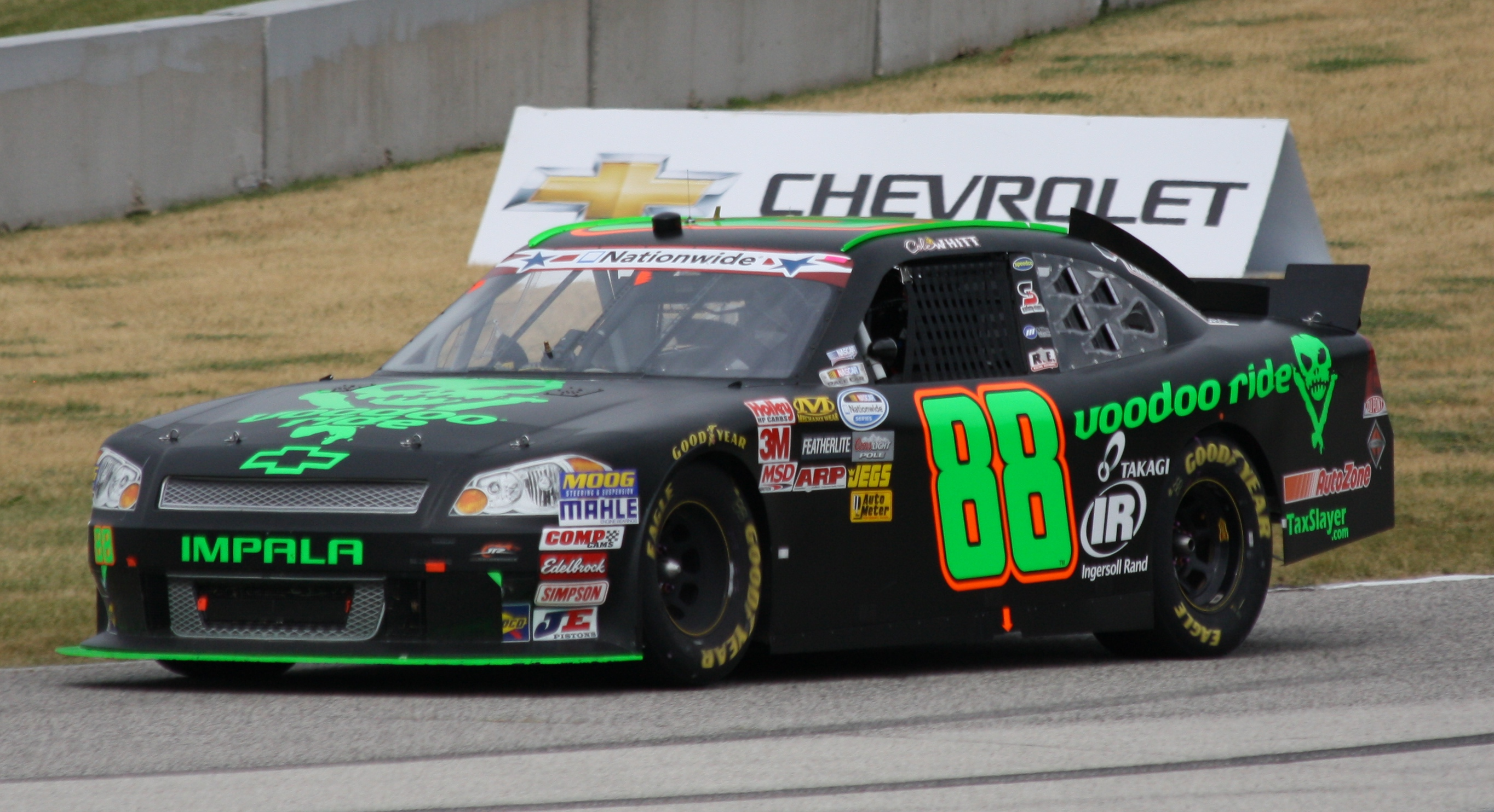 Cole Whitt NASCAR Nationwide Series car at Road America at the 2012 Sargento 200.